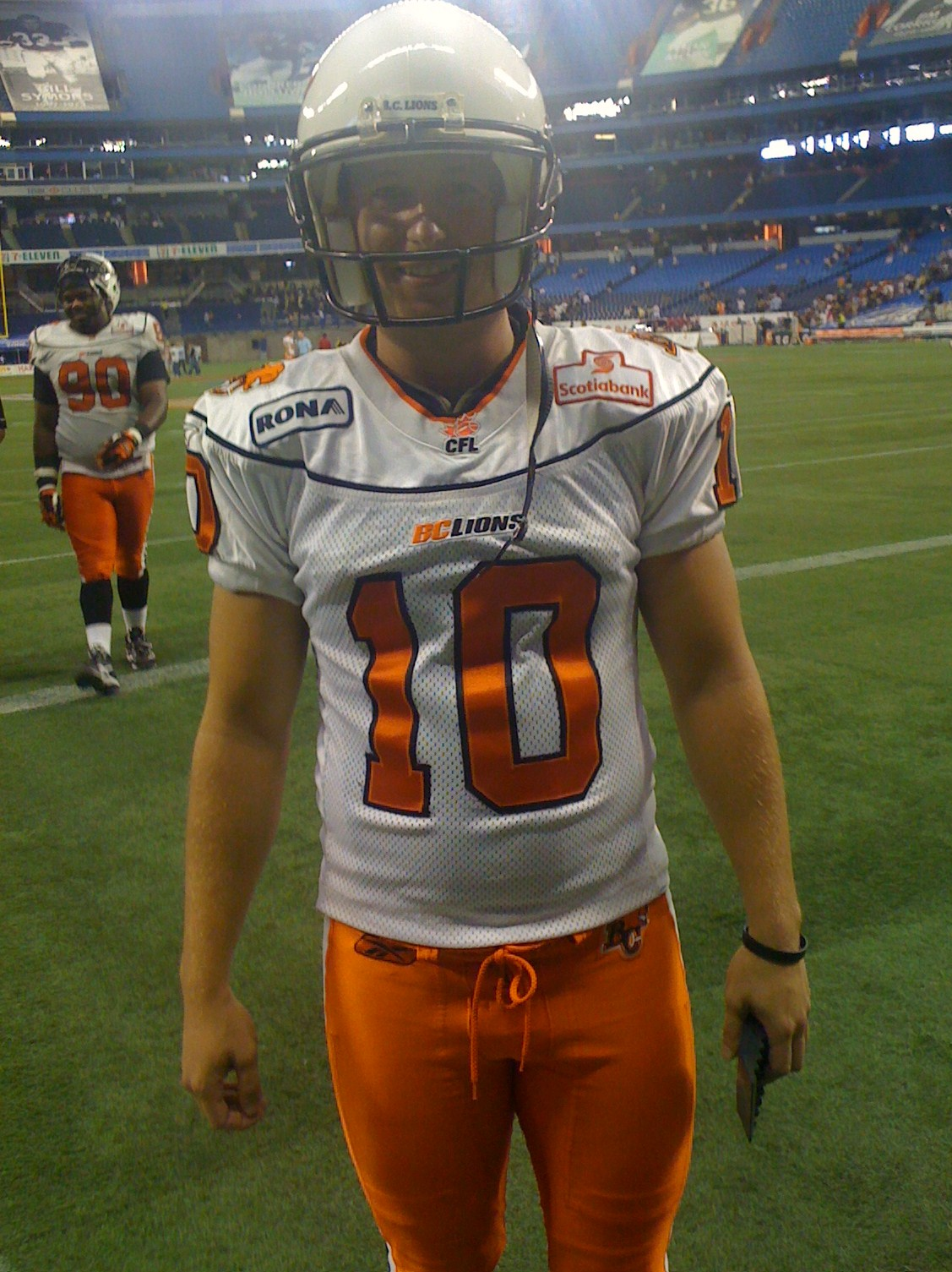 Canadian football player Sean Whyte of the BC Lions